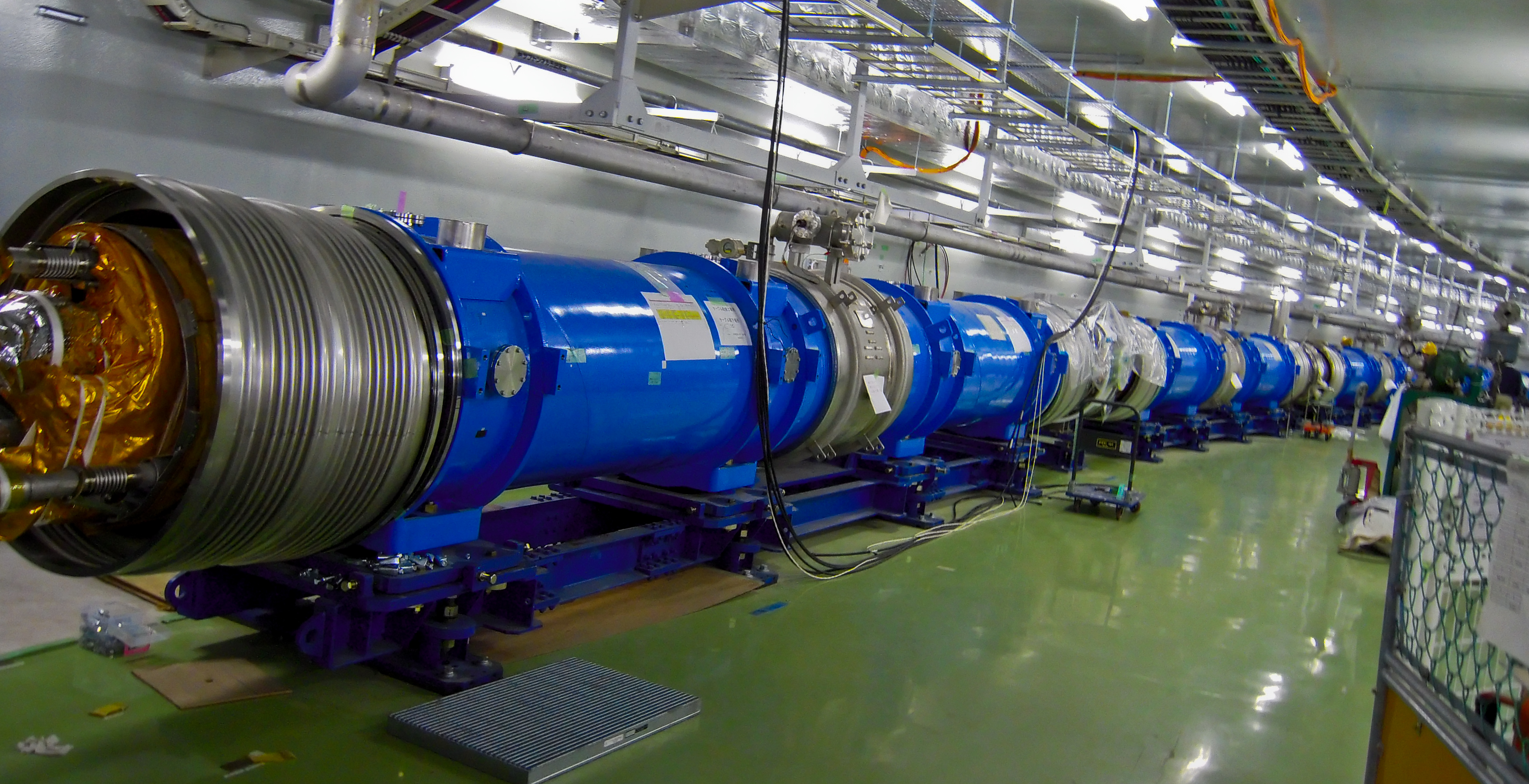 Set upping superconducting Magnets at J-PARC, Tokai-mura, Japan. These Magnets make proton beam, from 50GeV synchrotron, bent 90°, toward the neutrino target.[1]